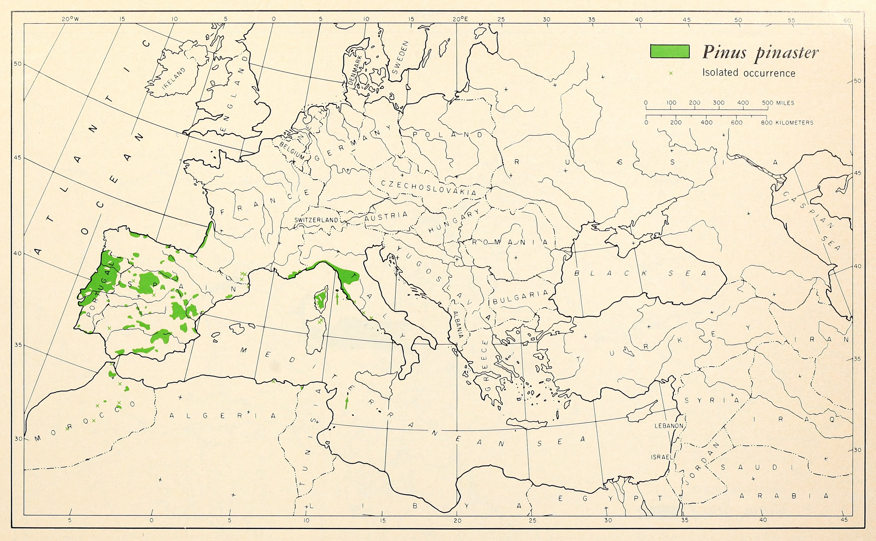 Map 30 Pinus pinaster distribution